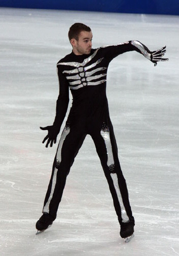 Kevin VAN DER PERREN at the 2009 European Figure Skating Championships